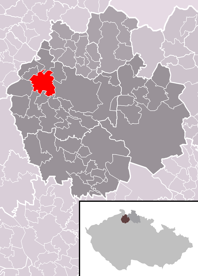 Location of Stružnice municipality within Česká Lípa District and administrative area of Česká Lípa as a Municipality with Extended Competence.